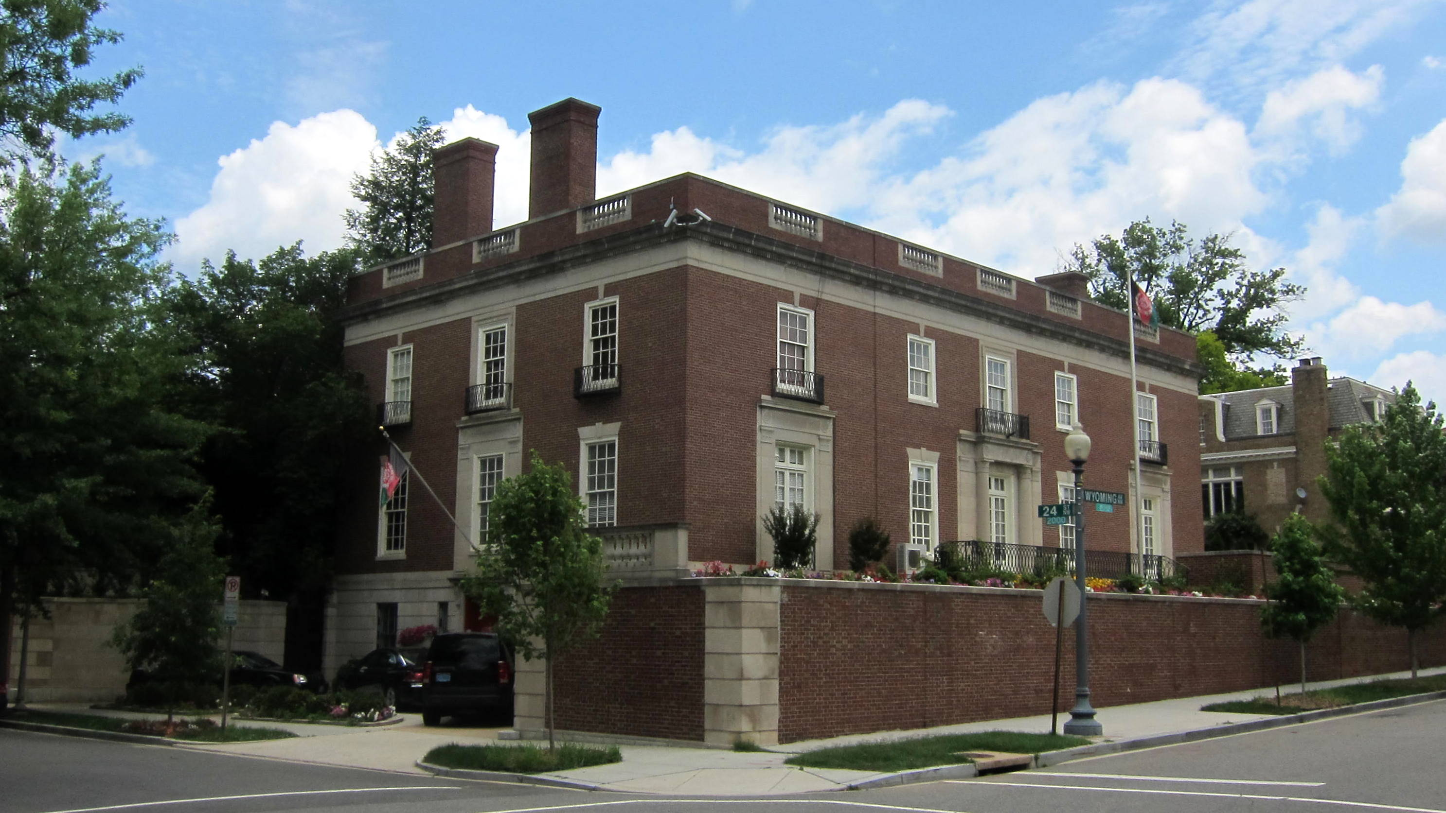 The Embassy of Afghanistan located at 2341 Wyoming Avenue, N.W., in the Sheridan-Kalorama neighborhood of Washington, D.C. Built as a private residence in 1912, the Colonial Revival-style building is designated as a contributing property to the Sheridan-Kalorama Historic District, listed on the National Register of Historic Places in 1989.